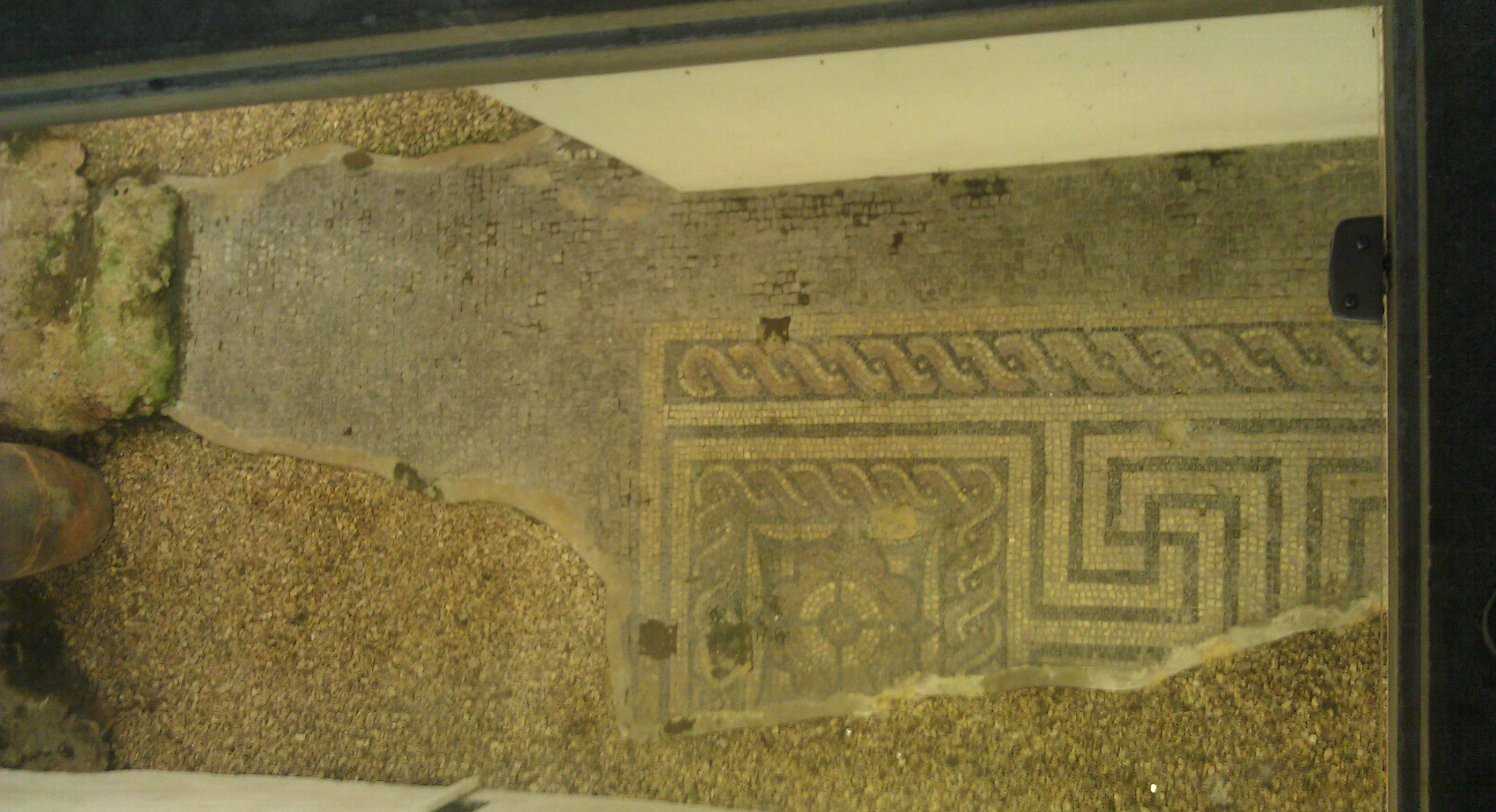 Mosaic ~1m beyond the floor of Chichester Cathedral